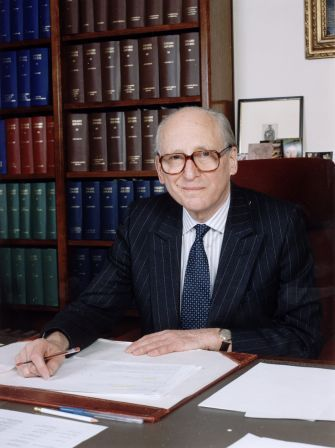 Thomas Bingham, Baron Bingham of Cornhill.